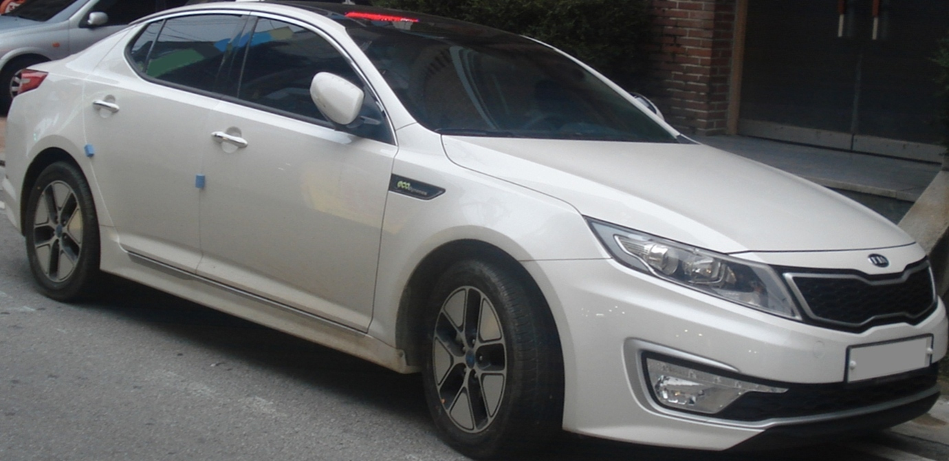 Kia K5 Hybrid